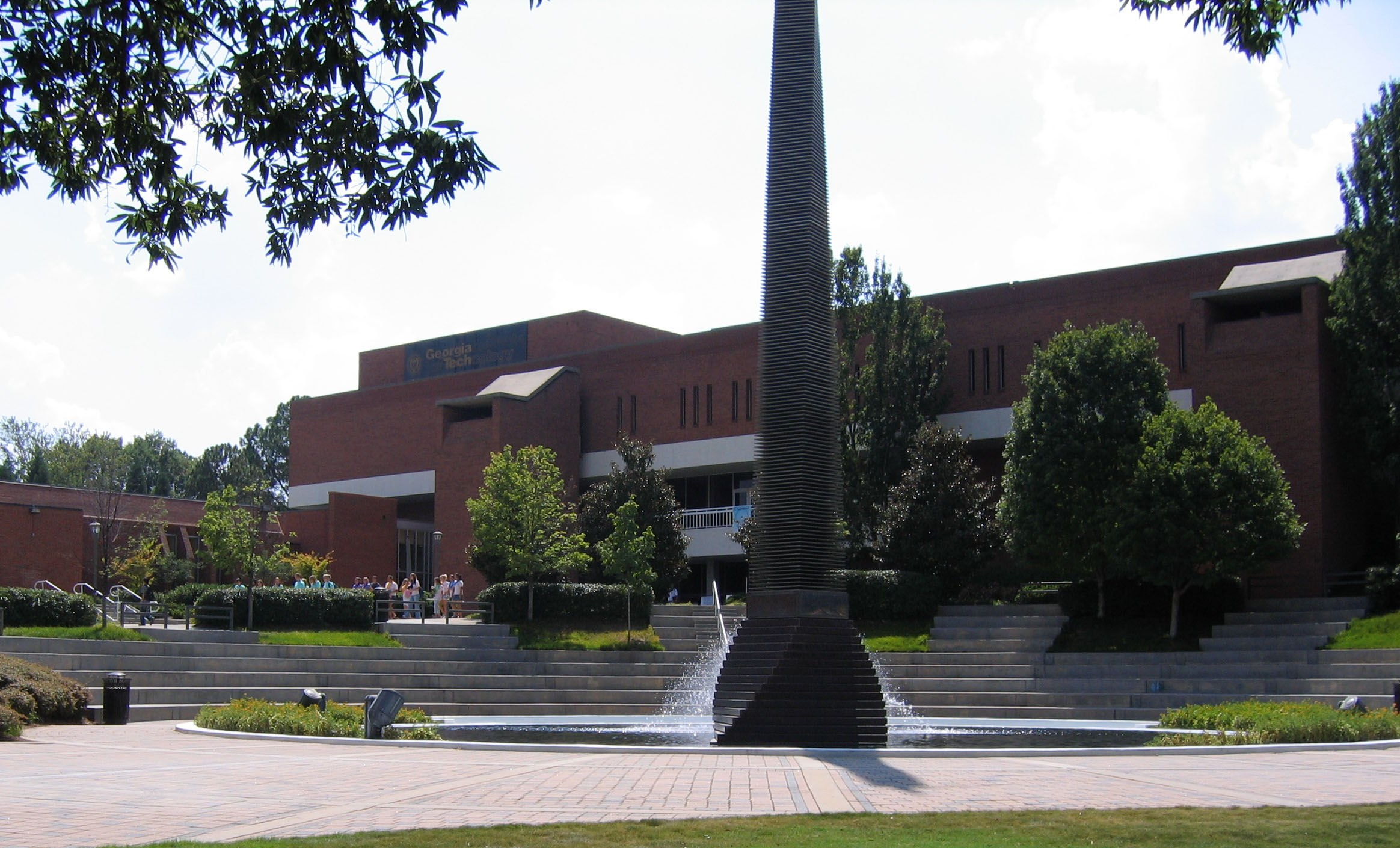 Cropped version of original picture by User:Disavian